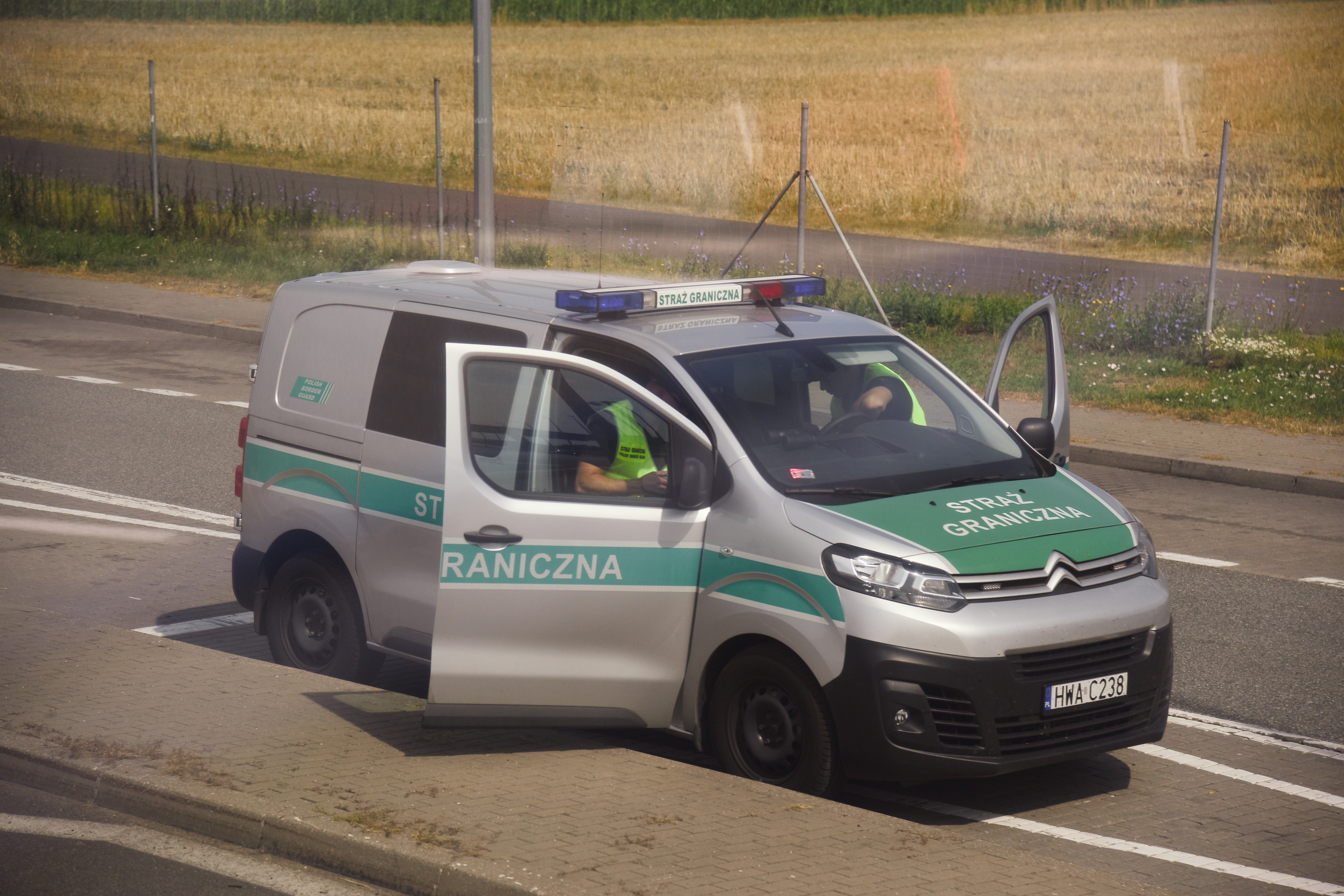 Straz Graniczna car in Poland